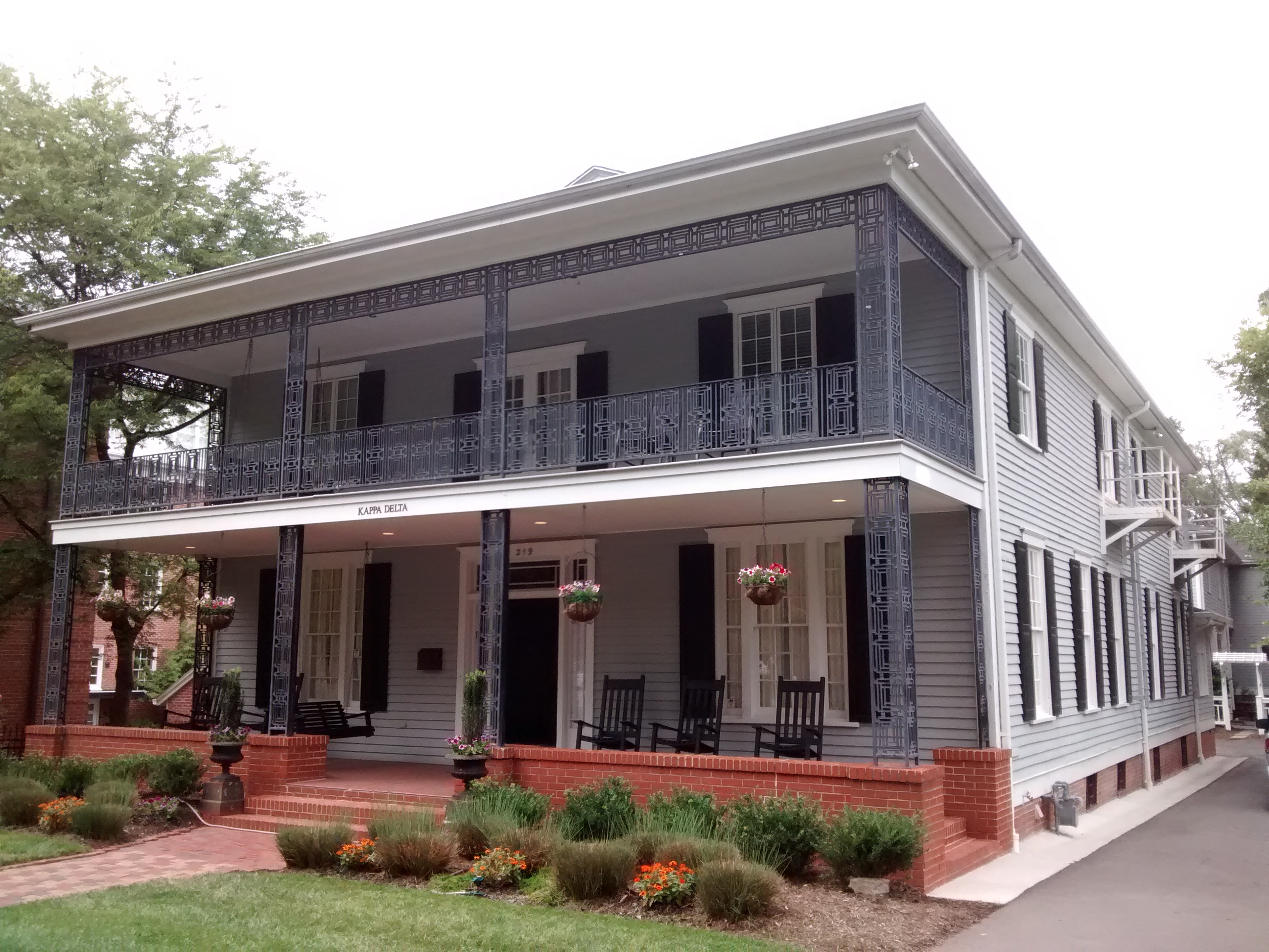 Kappa Delta, a sorority, at the University of North Carolina at Chapel Hill.